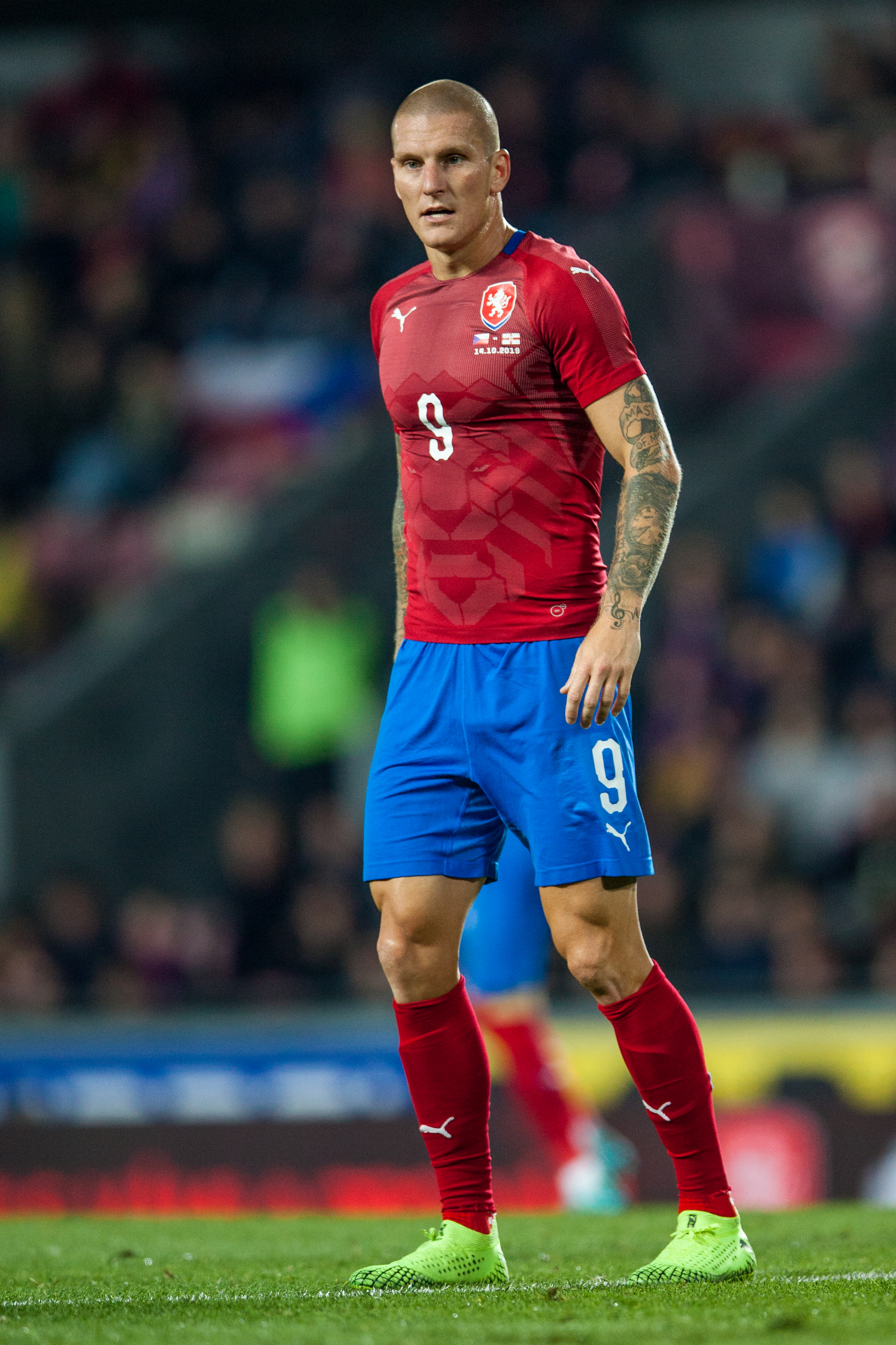 Zdeněk Ondrášek in an international friendly match between Czech Republic and Northern Ireland (2:3), Stadion Letná (Prague) 2019-10-14 The making of this work was supported by Wikimedia Austria. For other files made with the support of Wikimedia Austria, please see the category Supported by Wikimedia Österreich. Personality rights warningAlthough this work is freely licensed or in the public domain, the person(s) shown may have rights that legally restrict certain re-uses unless those depicted consent to such uses. In these cases, a model release or other evidence of consent could protect you from infringement claims.